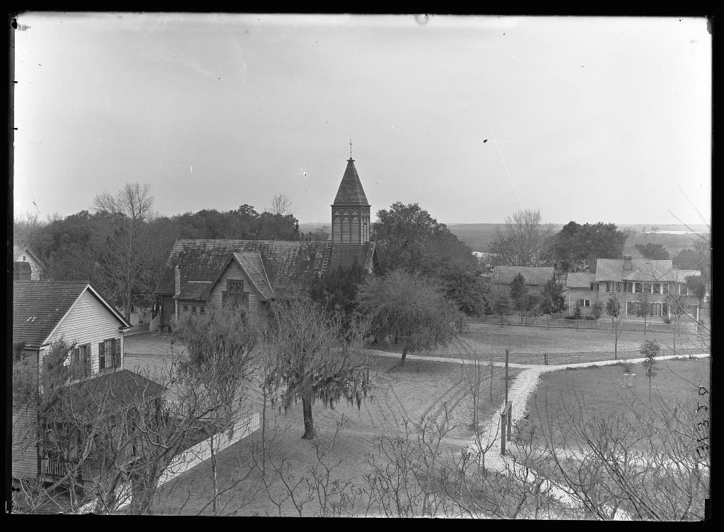 General view of Darien, church and houses. 1910. Photo by Huron H. Smith. Location: Darien, McIntosh County, Georgia, U.S.A., North America Original material: 5x7 inch glass negative Digital Identifier: CSB31320 Learn more about The Field Museum's Library Photo Archives.